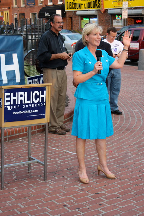 Mary Kane Speaks in the Canton Square